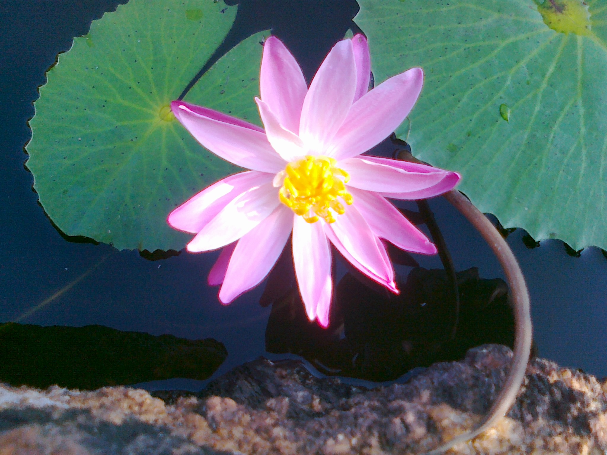 Nymphaeaceae flower (water lilies)